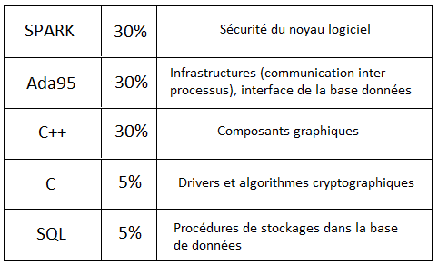 Description des langages de programmation utilisés pour MULTOS CA